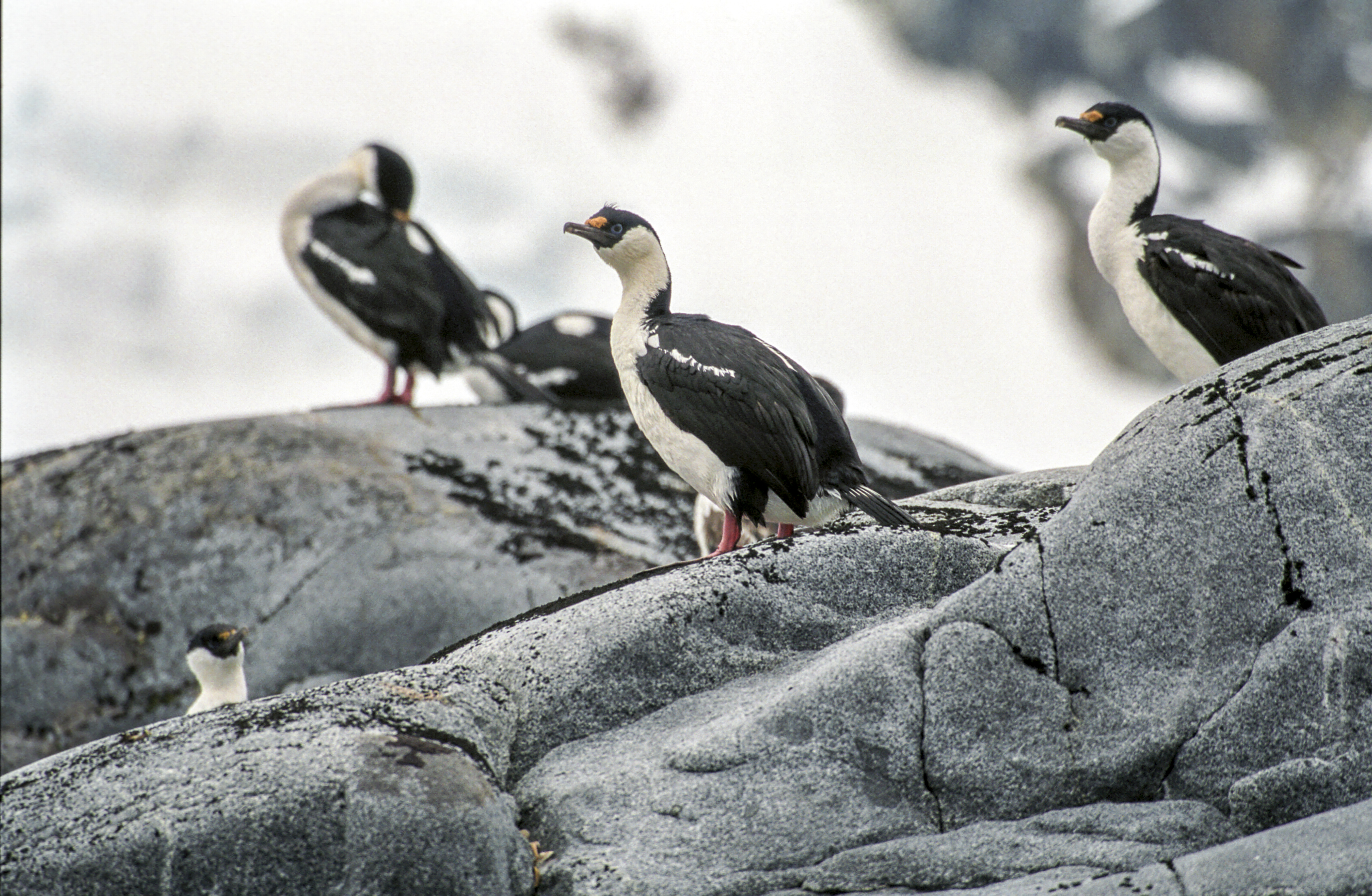 Imperial Shag, Antarctic Peninsula